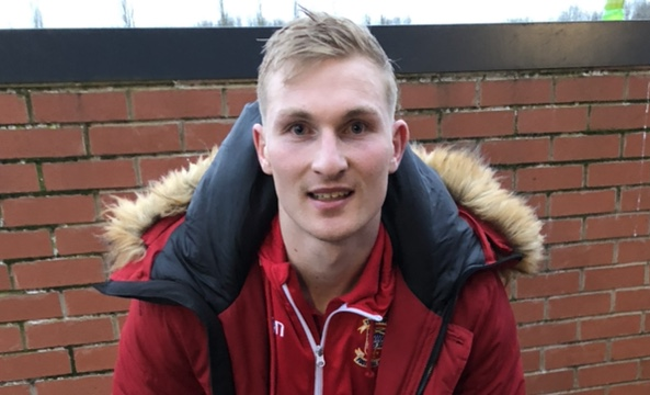 Photo taken by myself of Chris Lait following the Coalville Town Vs. Tamworth game on February 16 2019 at Owen Street Sports Ground.